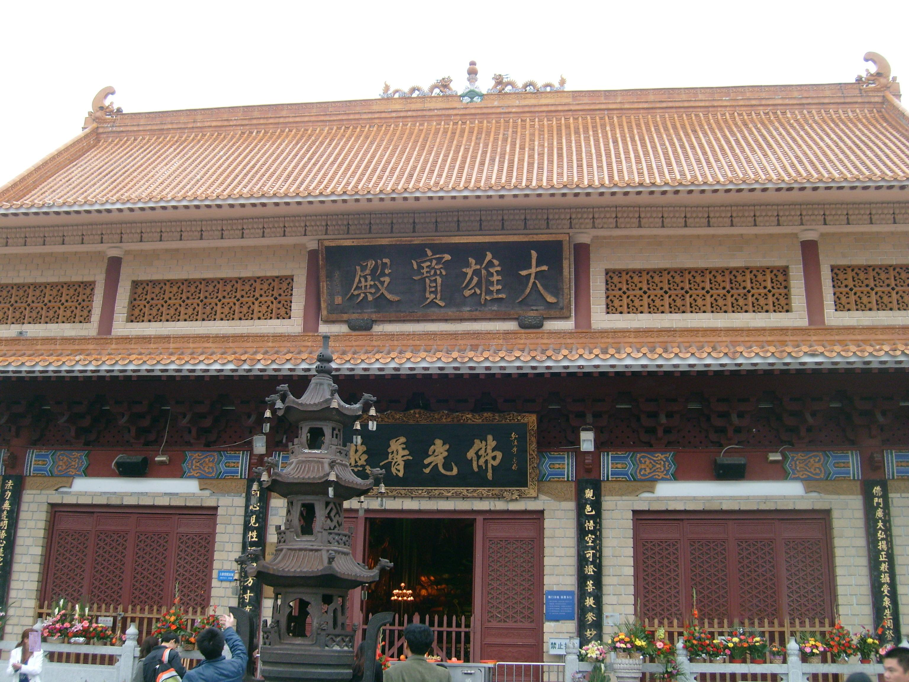 The Mahavira Hall at Hongfa Temple, in Shenzhen, Guangdong, China.